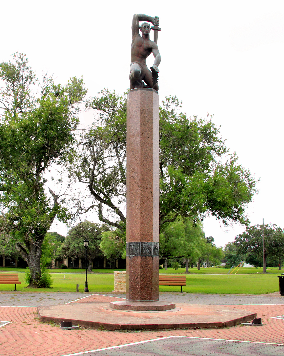 The Amon B. King's Men Monument is a 7.5-foot-tall bronze-cast statuary figure atop a 20.6-foot-tall octagonal shaft of granite in Refugio, Texas, United States. The monument memorializes the sacrifice of Captain Amon B. King and his Texas Army auxiliary forces during and after the Battle of Refugio during the 1836 Texas Revolution. The Texas Centennial Commission hired sculptor Raoul Josset and architect Donald S. Nelson to create the monument for the 1936 Texas Centennial. The monument was completed in 1937. It was listed on the National Register of Historic Places on July 27, 2018.